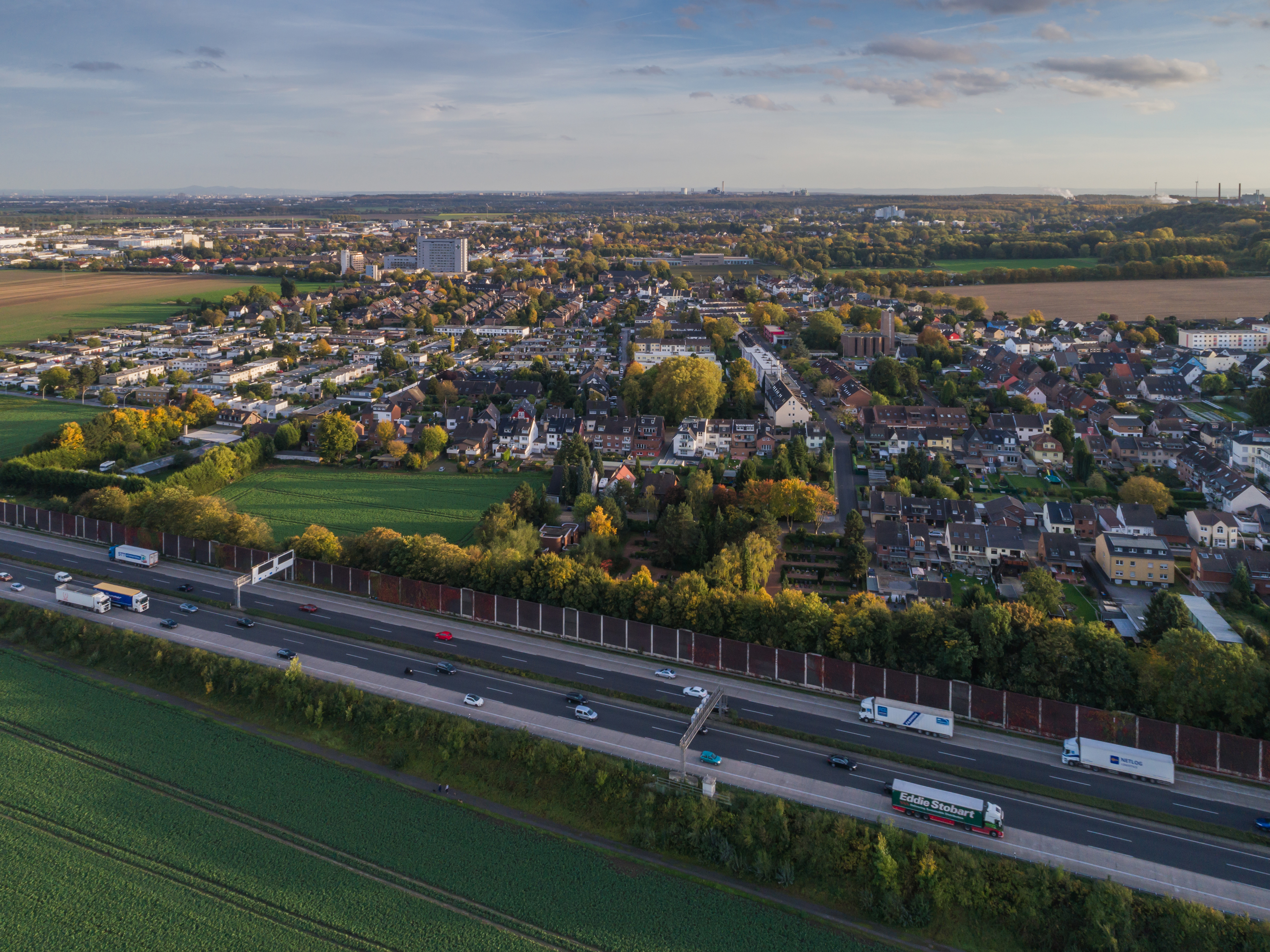 Aerial photo of Frechen, Rhein-Erft-Kreis (Germany)